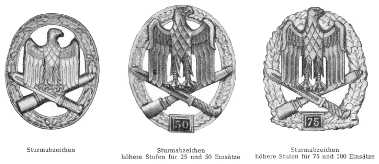 Stormsign of Germany, after 1957